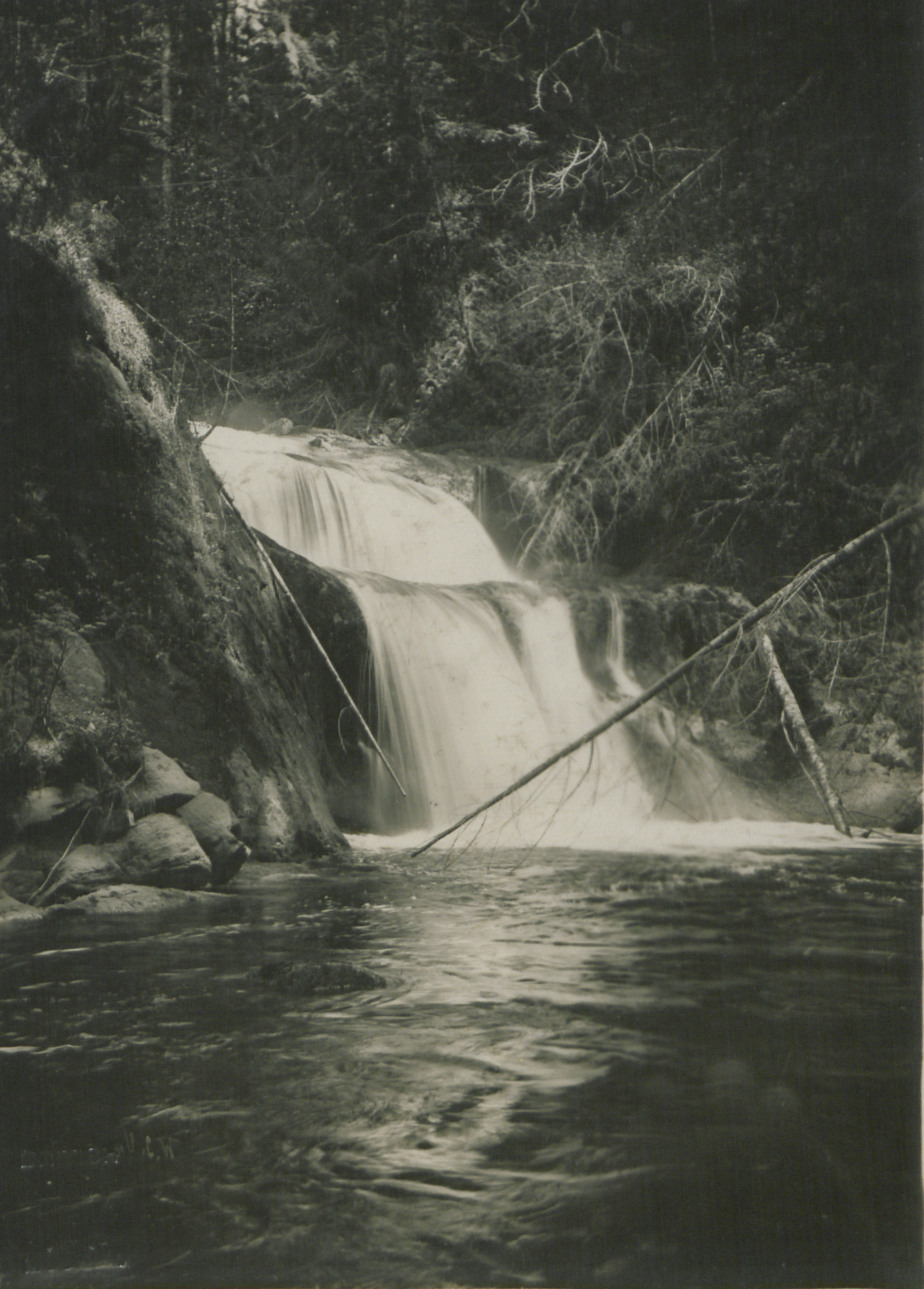 Original caption: “South Kanaka Creek Falls, Websters Corners, British Columbia.”